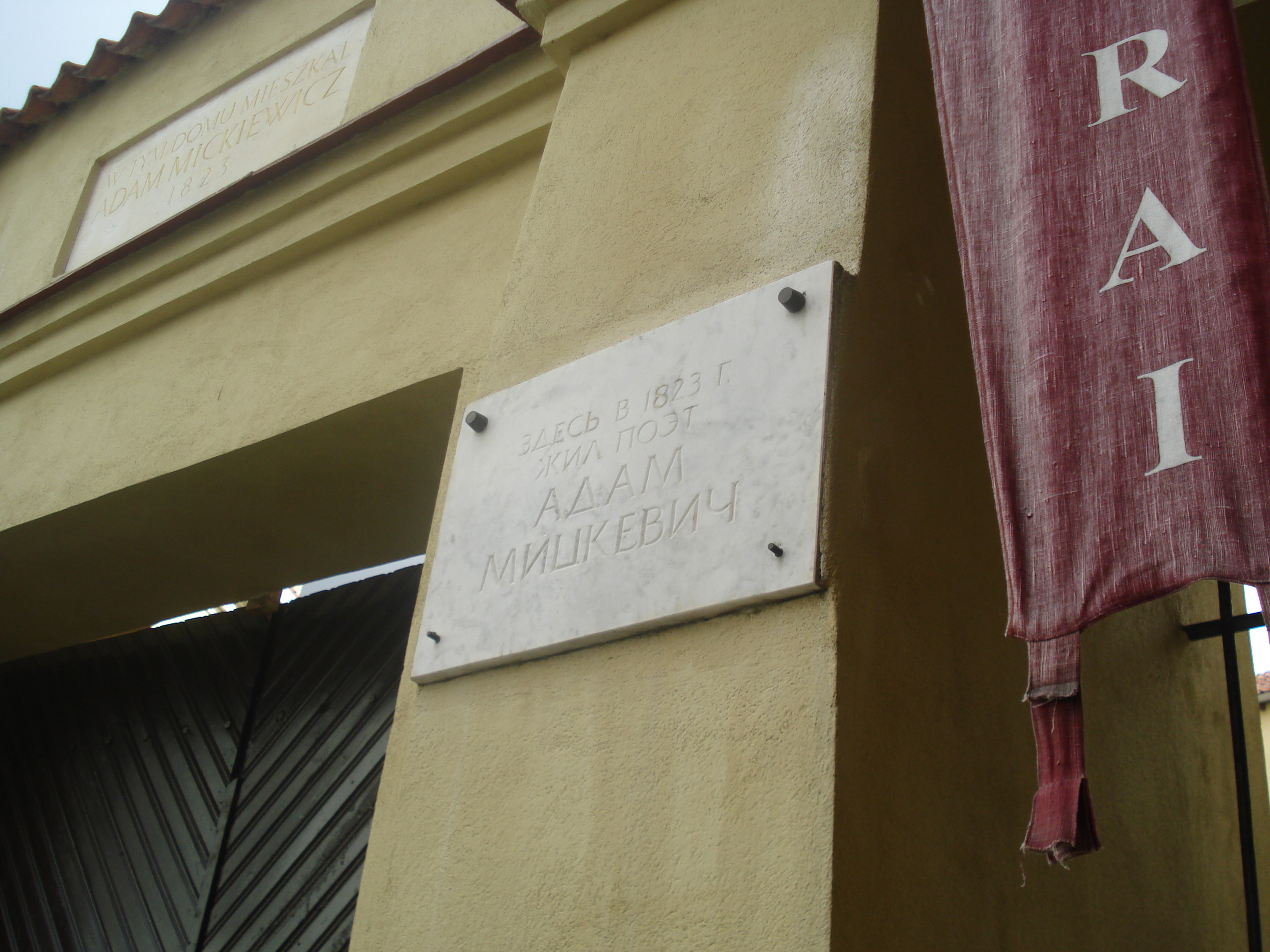 Adam Mickiewicz memorial plaque (Russian) in Vilnius (Literatu g. 22).